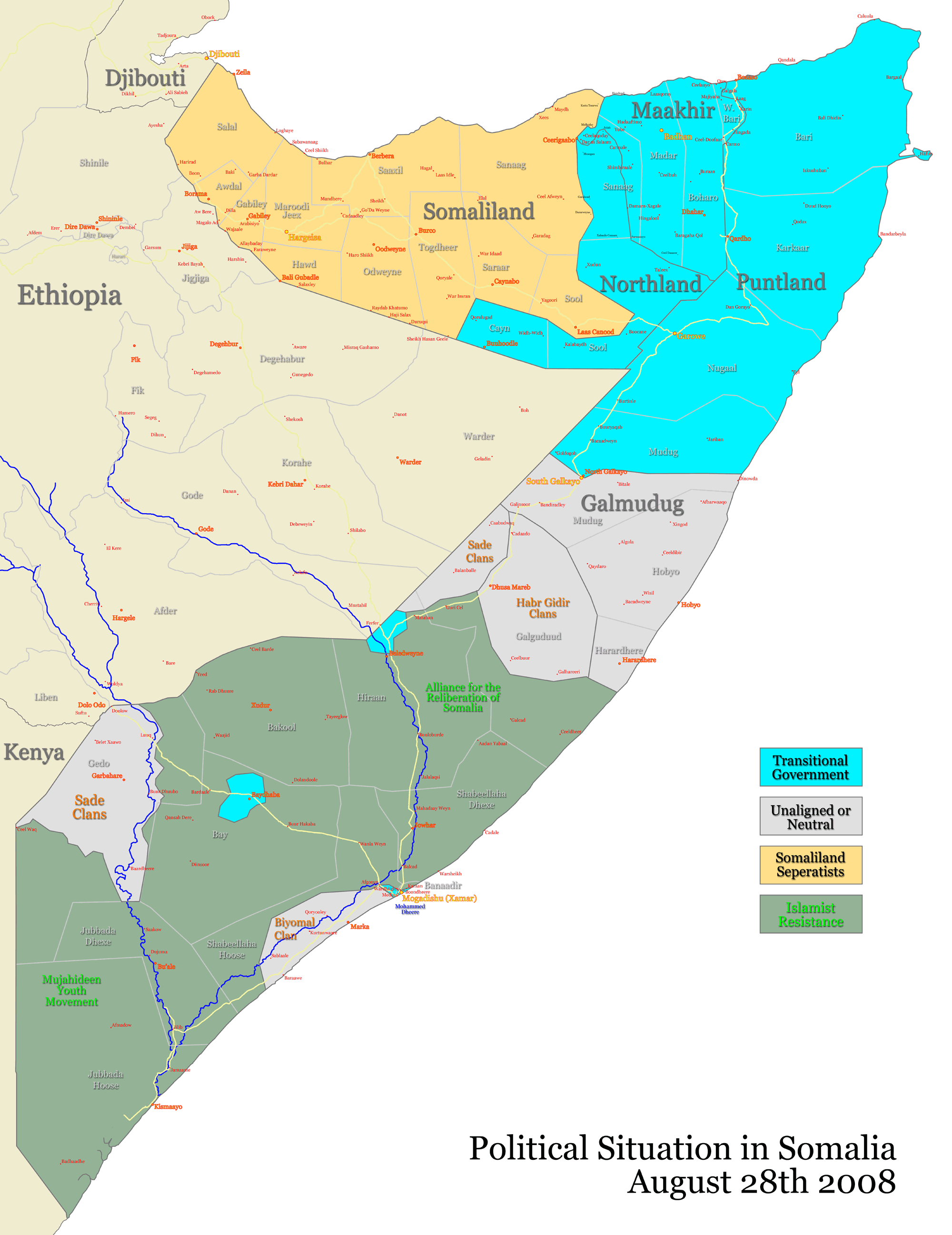 Political Situation in Somalia as of August 28th 2008.